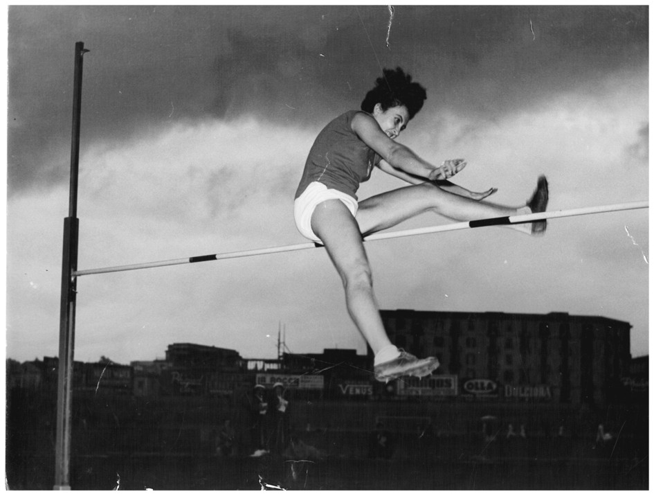 Ester Palmesino, Napoli 1952/10/05, Italy-Great Britain